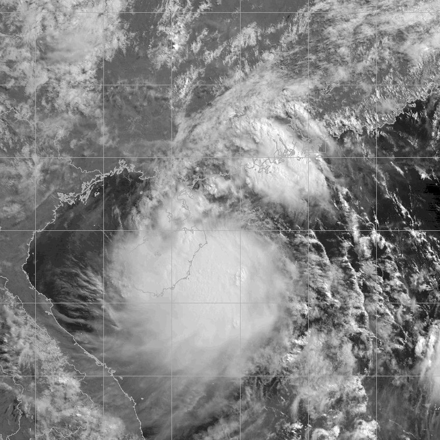 This image - captured by the GMS-6 satellite - shows Tropical Storm Jelawat over the South China Sea on June 28 at 0030 UTC. Maximum sustained winds were 40 knots (10-minute average) and the minimum central pressure was 994 mb.